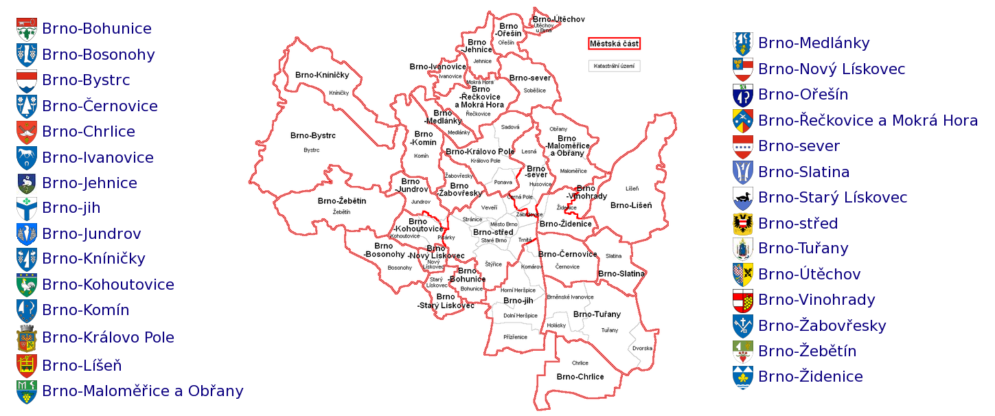 Map of city quarters and cadastral areas of Brno